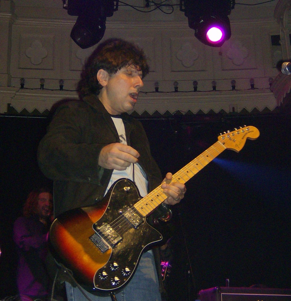 Bobby Bandiera, live in Amsterdam, October 14, 2006